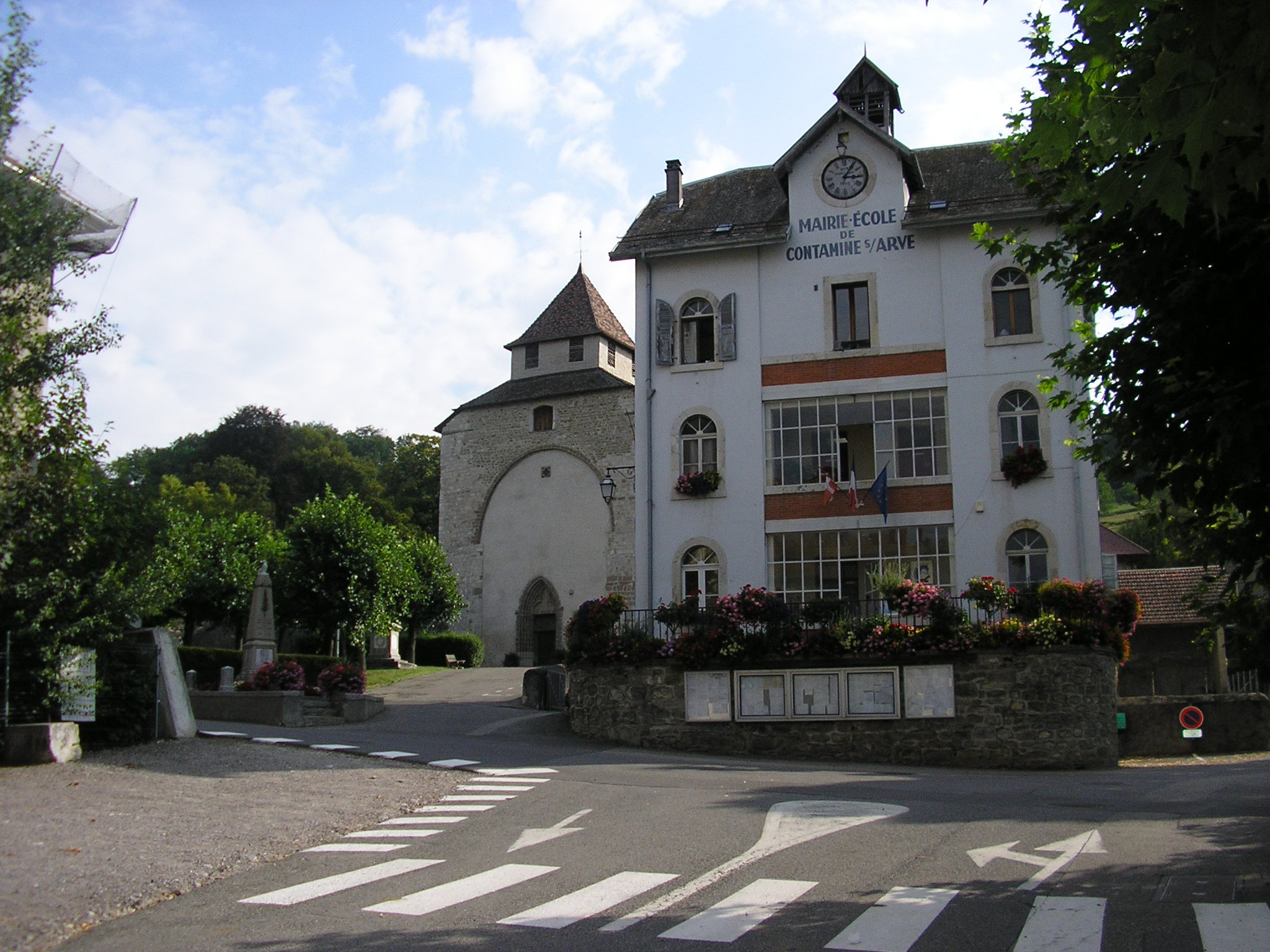 mayor’s office and church Contamine-sur-Arve in Haute-Savoie.